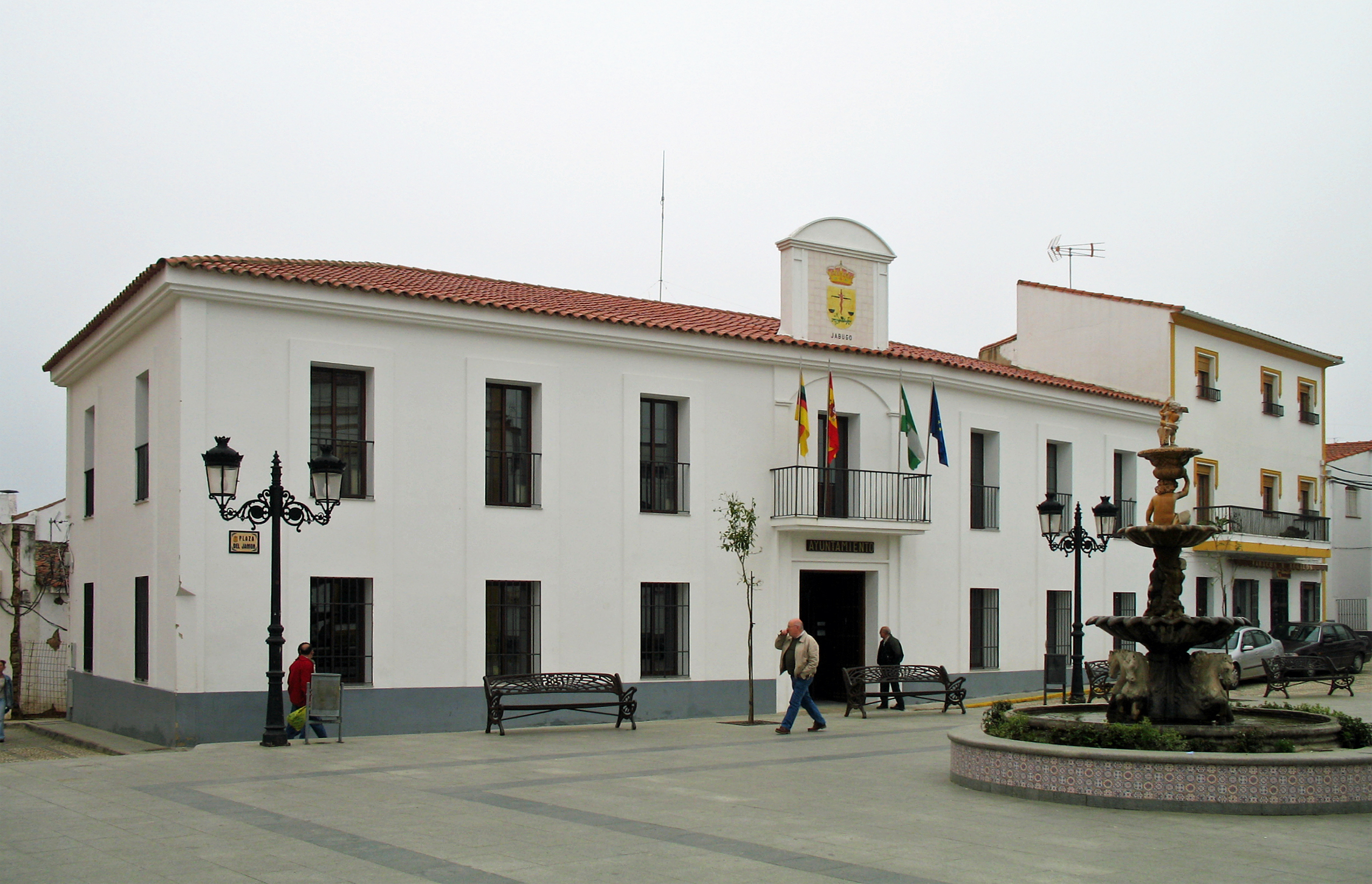 Jabugo (province of Huelva, Andalusia, Spain): town hall